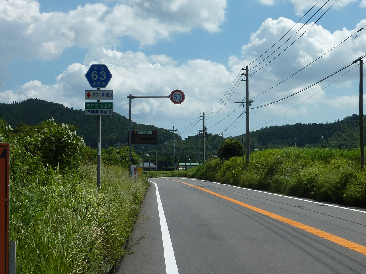 Kagoshima Prefectural Road No.63:Shibushi-Fukuyama Line (Ariake, Shibushi City, Kagoshima, Japan)